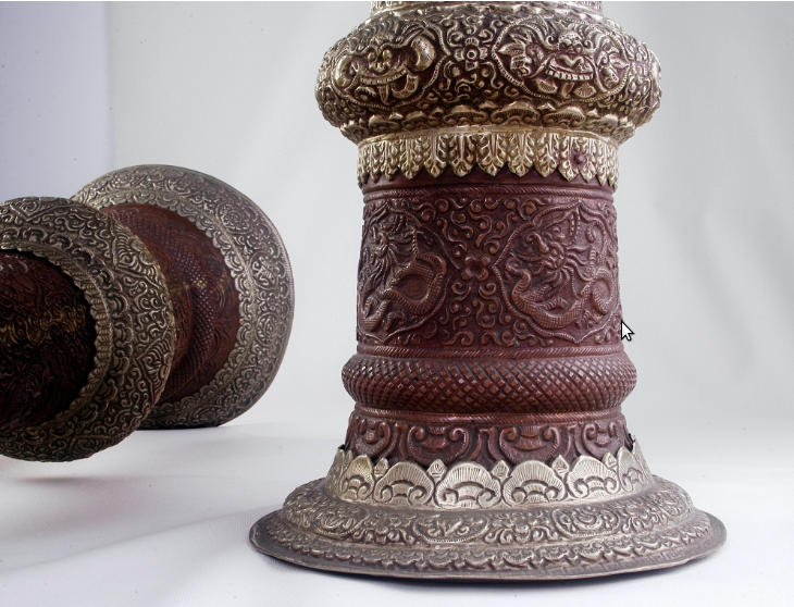 Dungchen (detail). Collection of Museo Azzarini, Universidad Nacional de La Plata